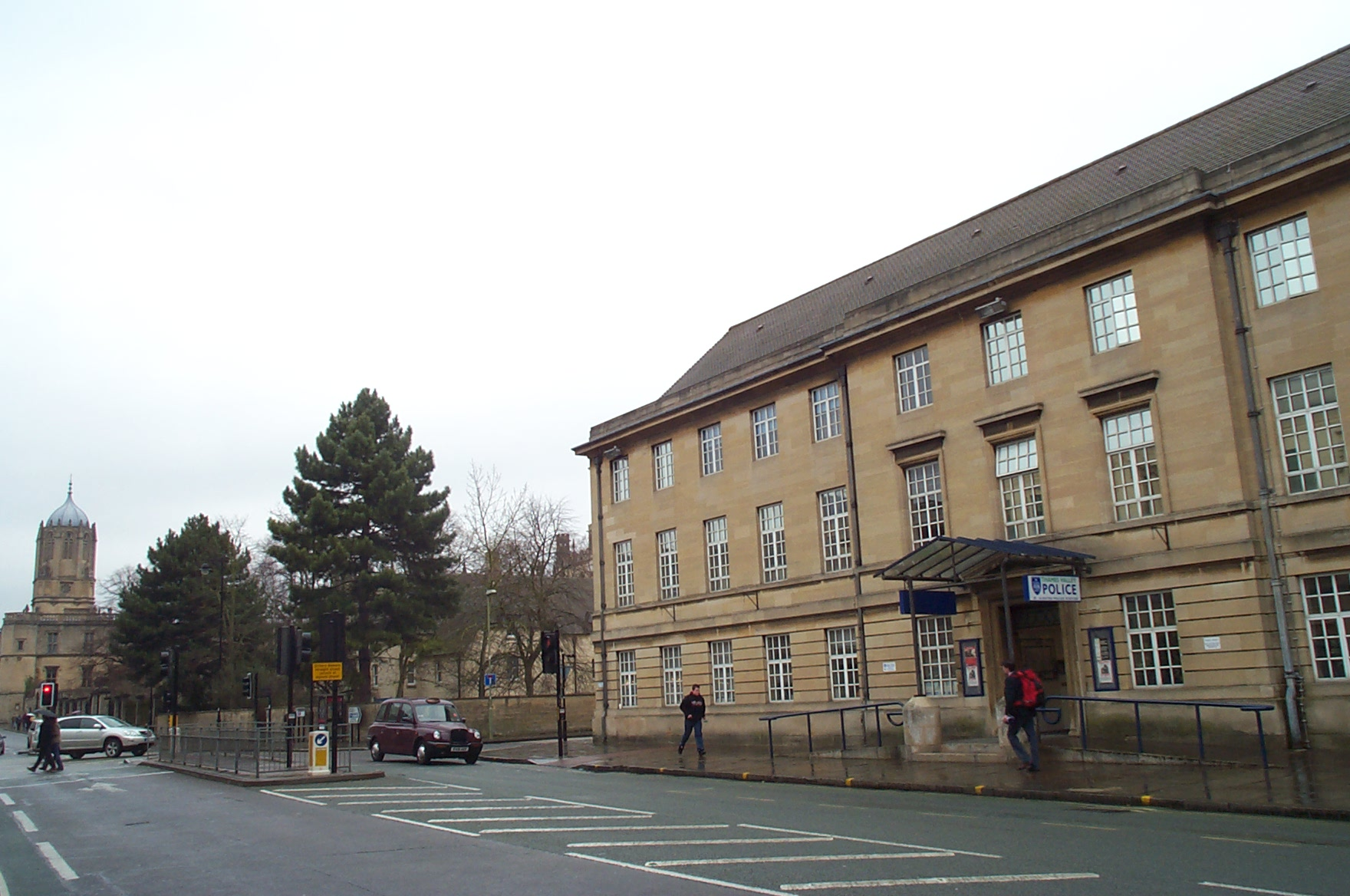 Thames Valley Police station in St Aldate's, Oxford. Photograph taken 2006-03-25. Copyright © Kaihsu Tai.